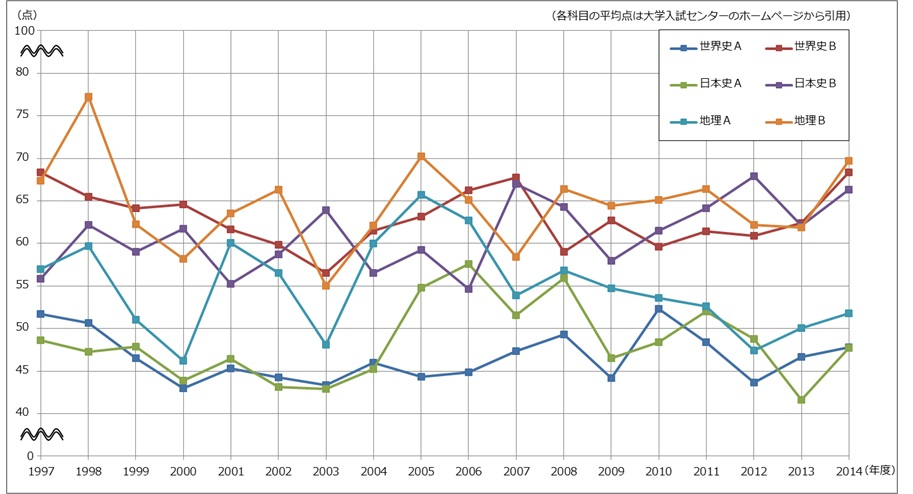 The graph of average score of Geography and History (National Center Test for University Admissions)